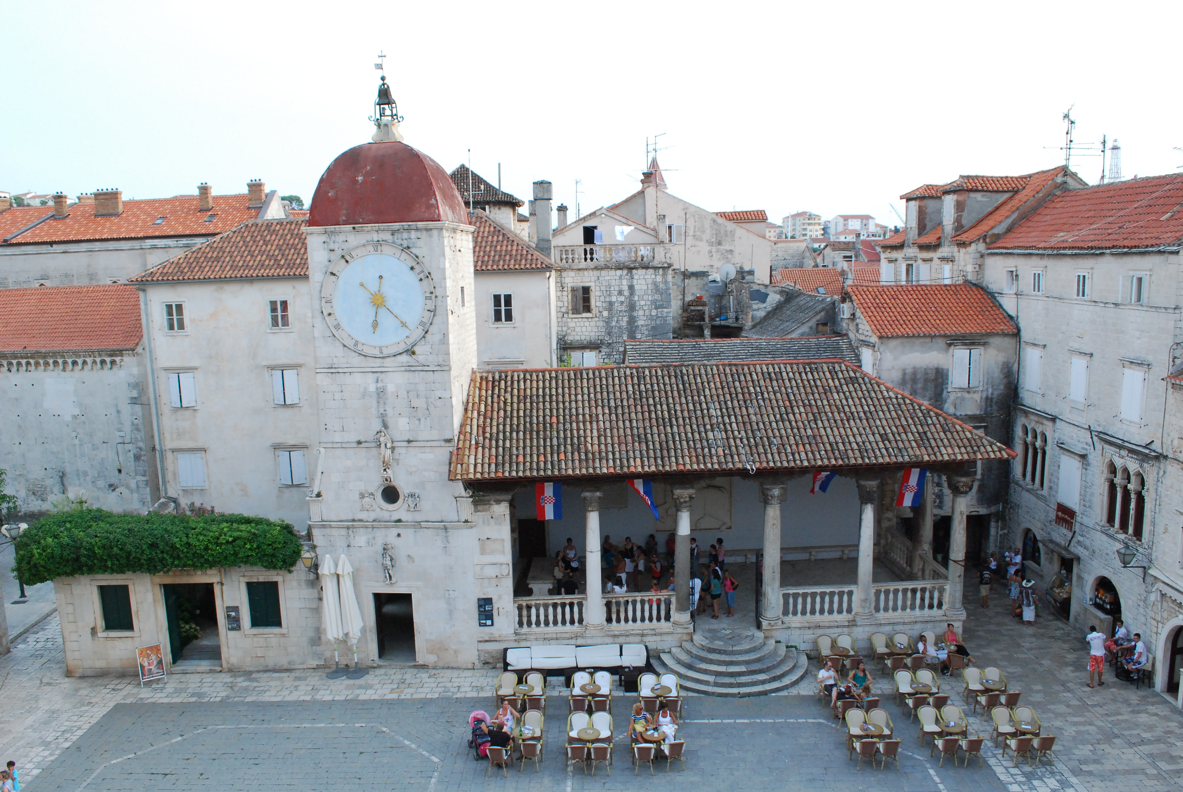 Trogir, Croatia